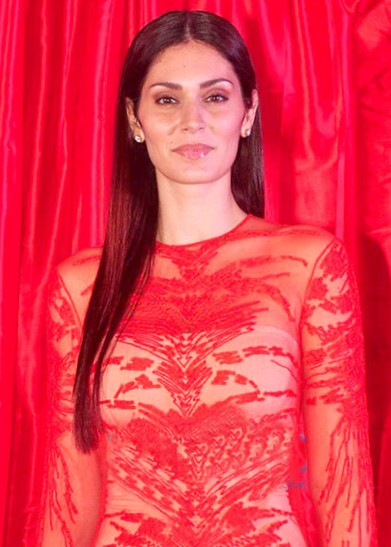 Bruna Abdullah at the launch of film Udanchhoo.